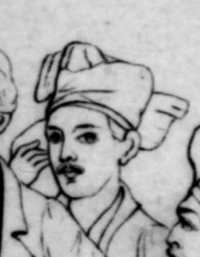 Drawing of James William Wild by Johann Jakob Frey (J.J. Frey), created 15 October 1842.